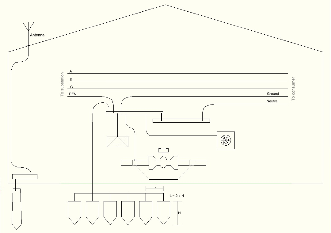 TN-CS earthing.